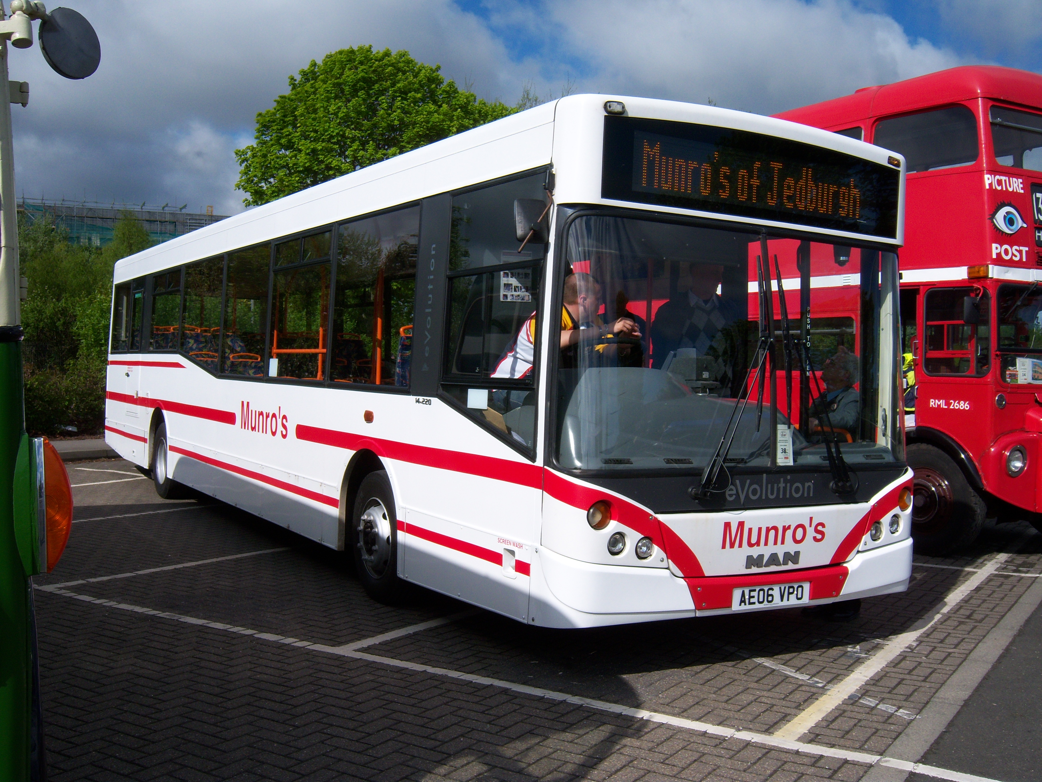 Munros of Jedburgh 102 (AE06 VPO), a MAN 14.220/MCV Evolution, on display at the 2009 Metrocentre bus rally.